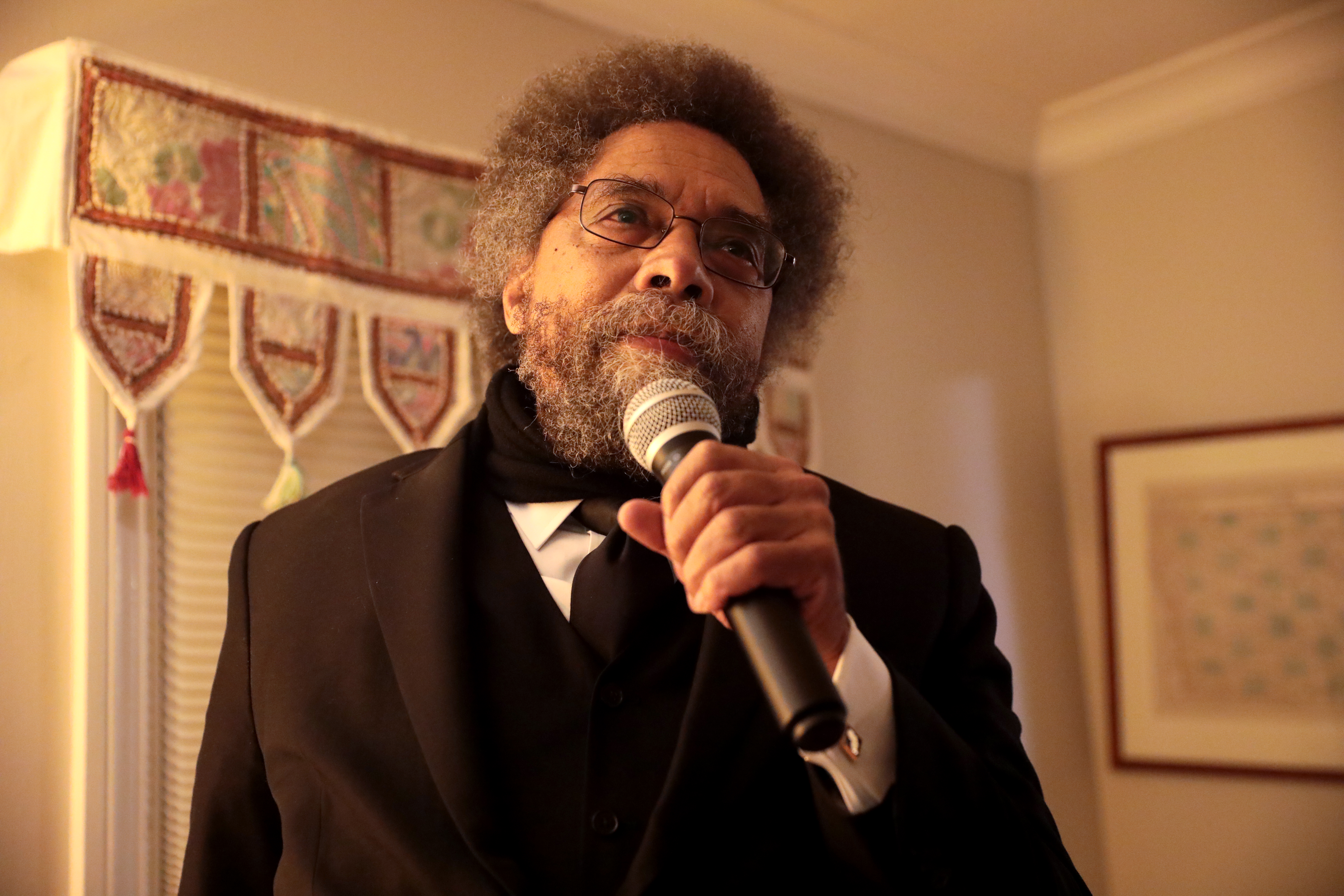 Cornel West speaking with supporters of U.S. Senator Bernie Sanders at a house party in Des Moines, Iowa.